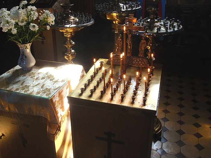 Lity tray in the Orthodox Cathedral of St. Nicholas in Białystok